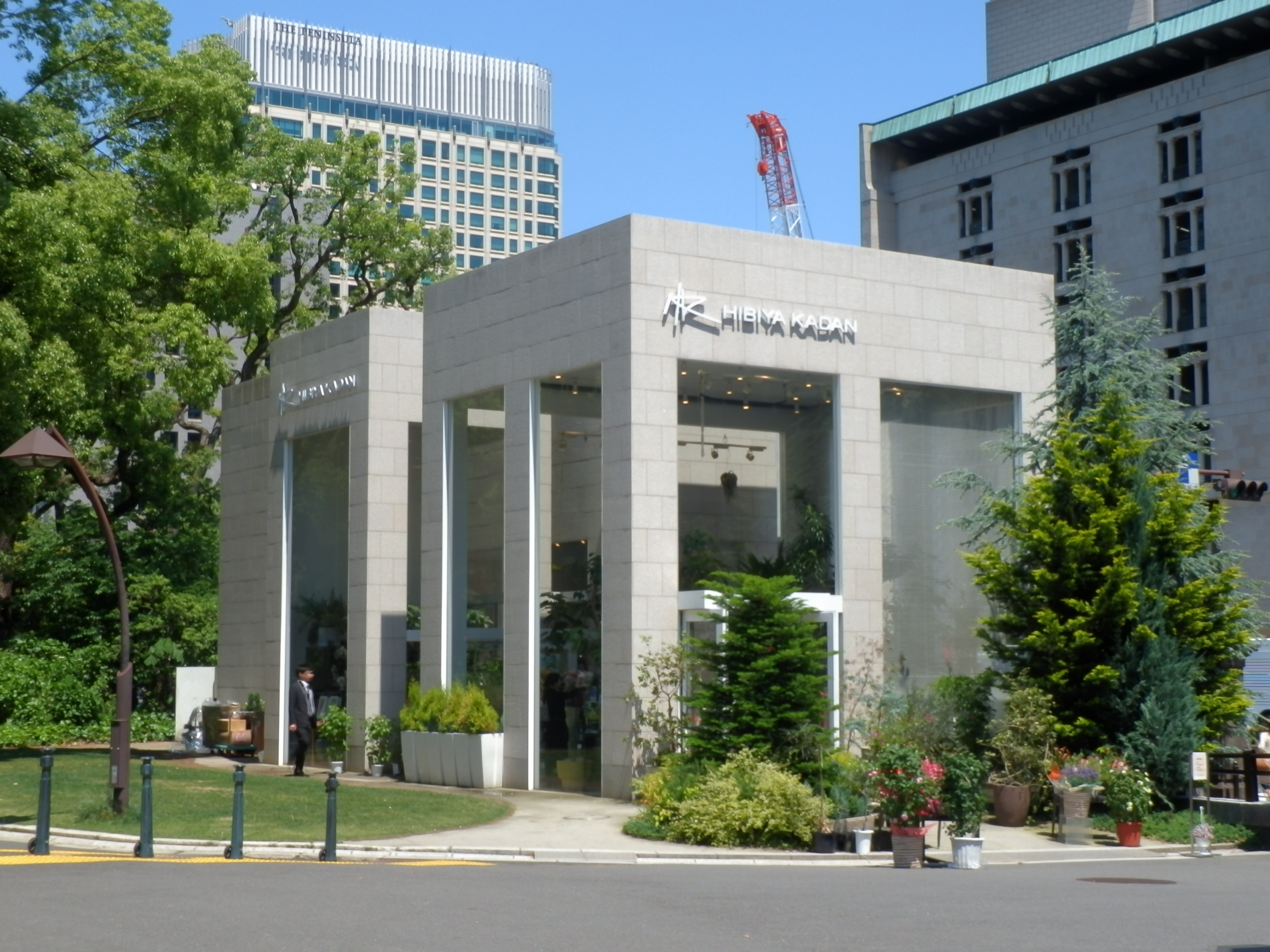 Hibiya-Kadan Hibiya Kouen branch (Florist in Tokyo, Japan)